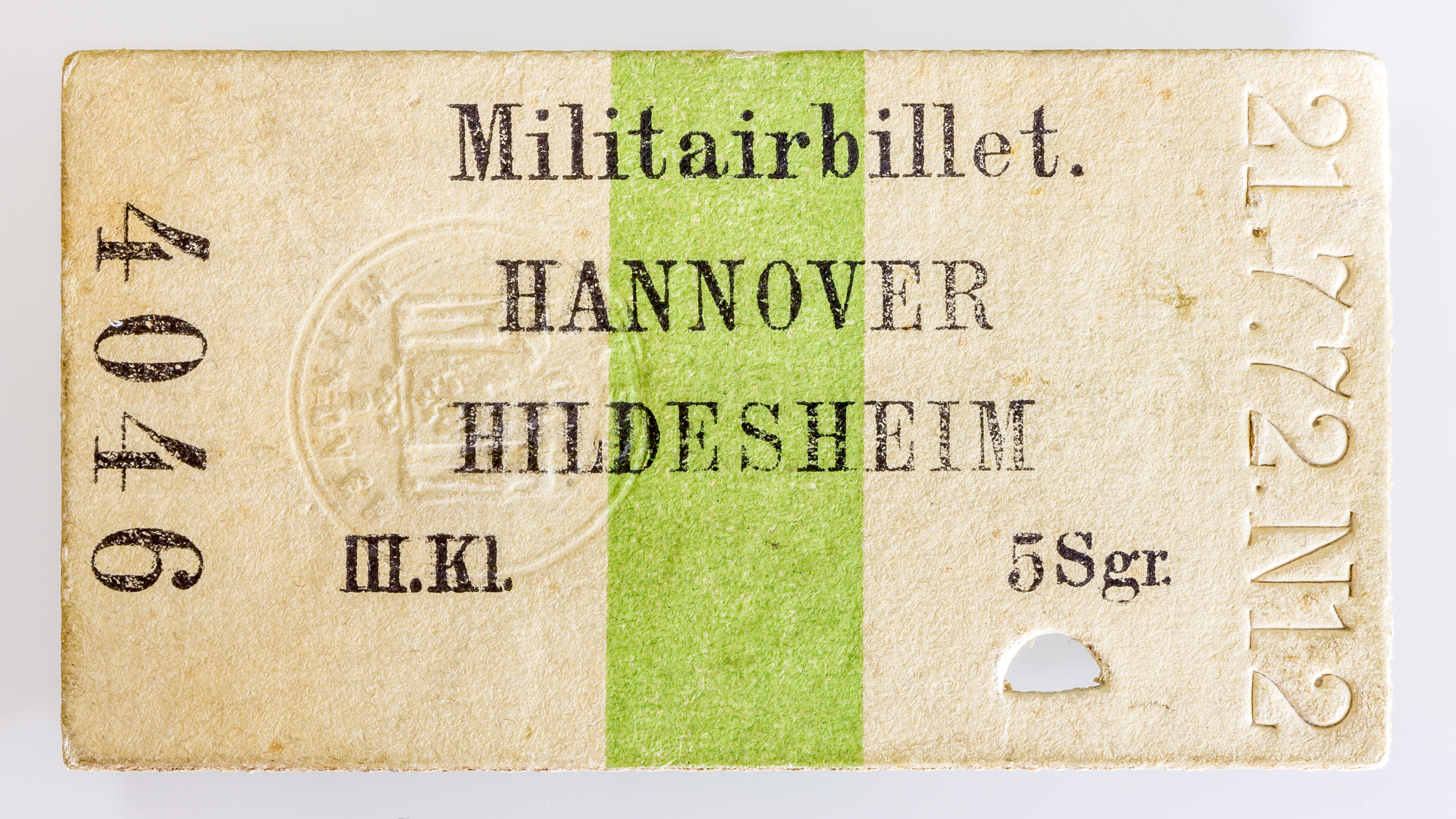 Military rail ticket Hannover-Hildesheim 21. Juli 1872. 3rd class, 5 Silbergroschen Text: Militairbillet Hannover Hildesheim III. Kl. 5 Sgr 21.7.72.N12